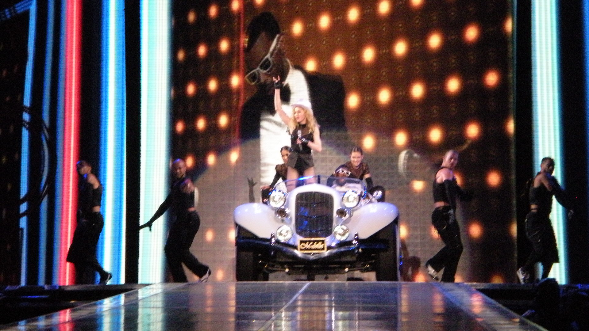 Madonna performs "Beat Goes On" in Sofia